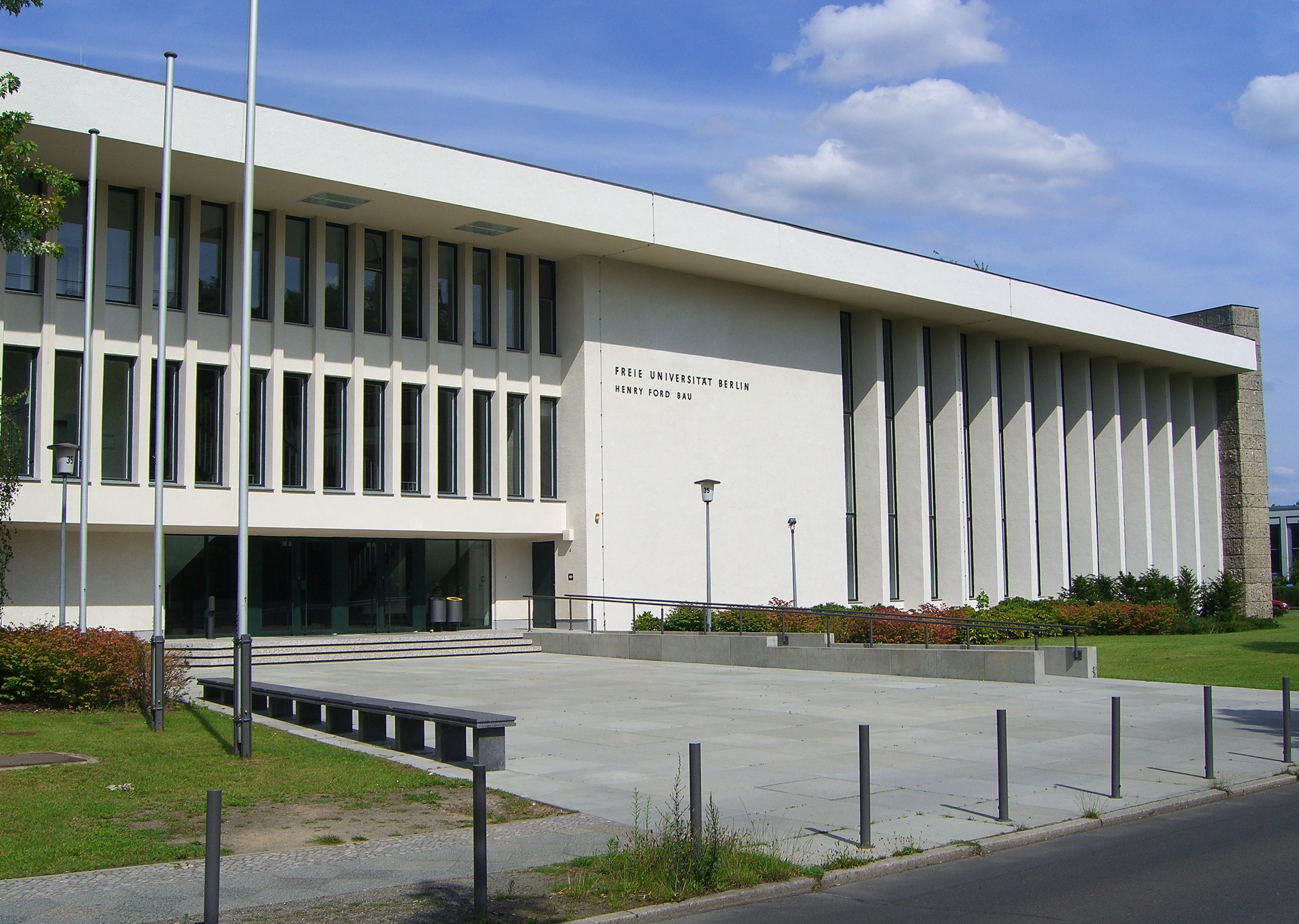 The "Henry-Ford-Building" (with auditoriums) at Free University of Berlin